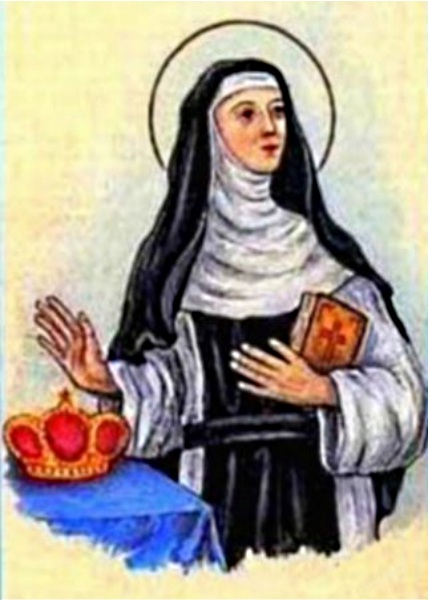 Theresa of Portugal, daughter of Sancho I. Also Queen of León (1191-1197)